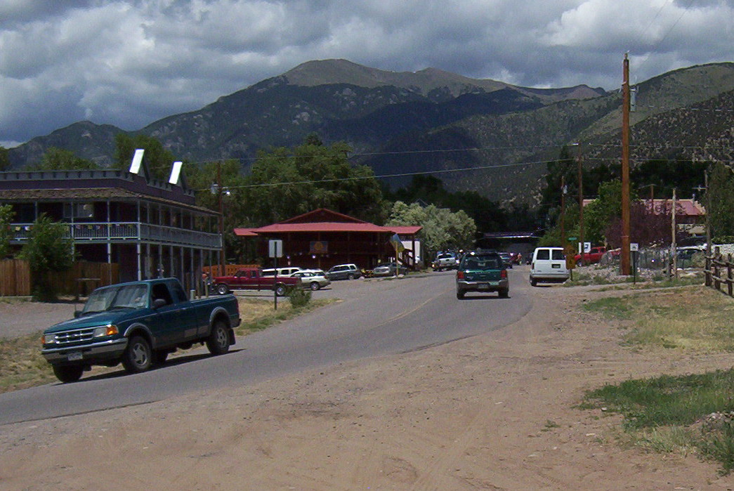 Alder Street in Crestone, Colorado looking north from Golden and Alder. Gibson Peak, 12,878 feet, is visible in the background.